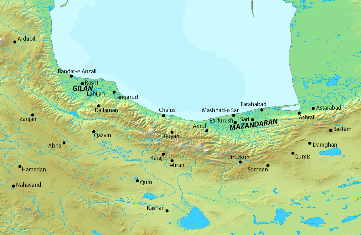 Caspian coast of Iran during the Safavid, Afsharid, Qajar, and early Pahlavi era. Map taken from DEMIS Mapserver, which is public domain, the rest is self-made.